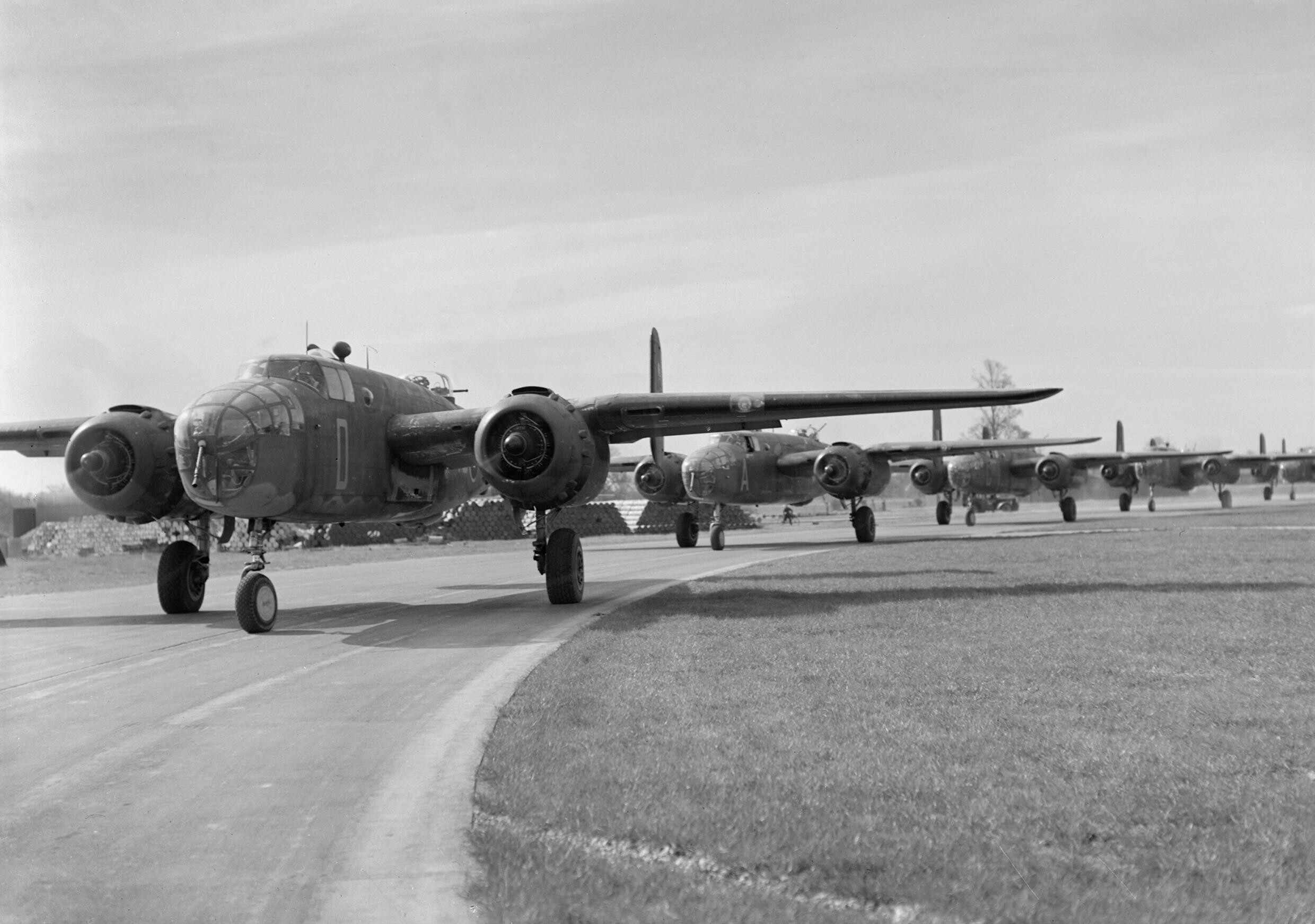 Royal Air Force- 2nd Tactical Air Force, 1943-1945. North American Mitchell Mark IIs of No. 98 Squadron RAF taxying along the perimeter track at Dunsfold, Surrey, for a morning raid on targets in northern France.